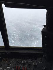 Conditions during the Coast Guard's attempts to locate the SS El Faro in early October 2015 during Hurricane Joaquin.